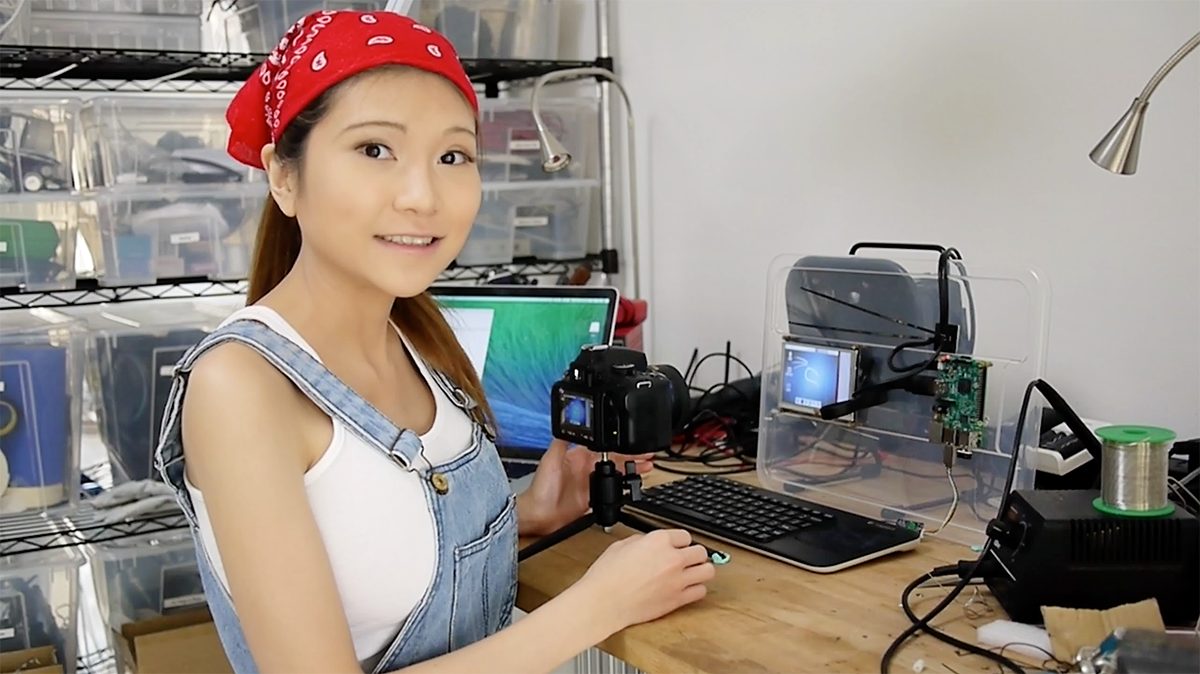 Chinese Maker Naomi Wu (aka SexyCyborg) configures a Raspberry Pi 2.